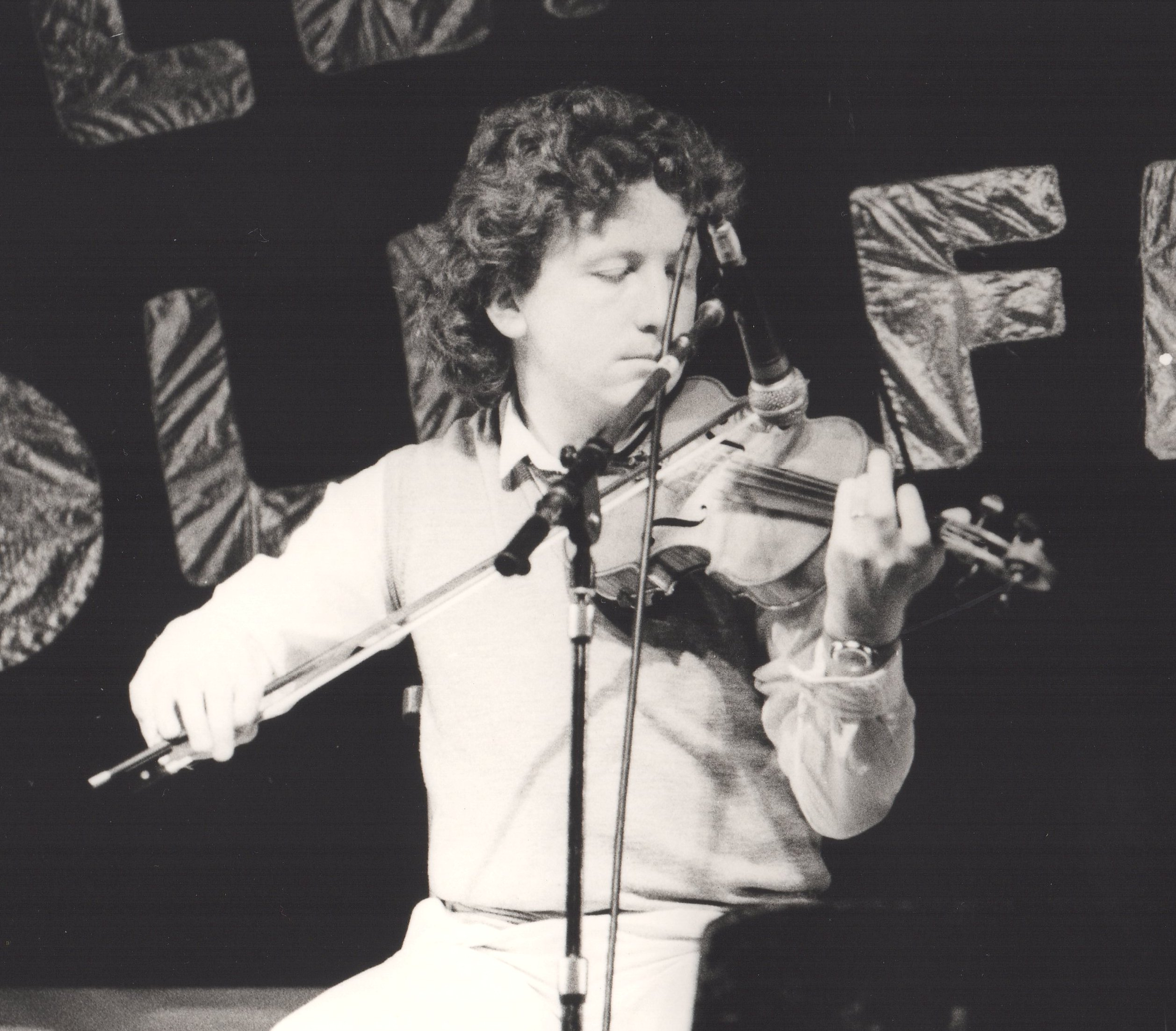 Irish fiddle player Frankie Gavin with De Dannan, Irish folk band at the Trowbridge Folk Festival, 1985 (Tony Rees photograph).